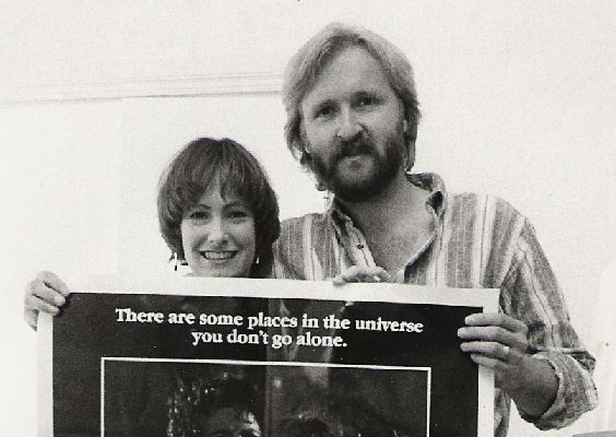 Aliens Producer Gale Anne Hurd and Writer/Director James Cameron